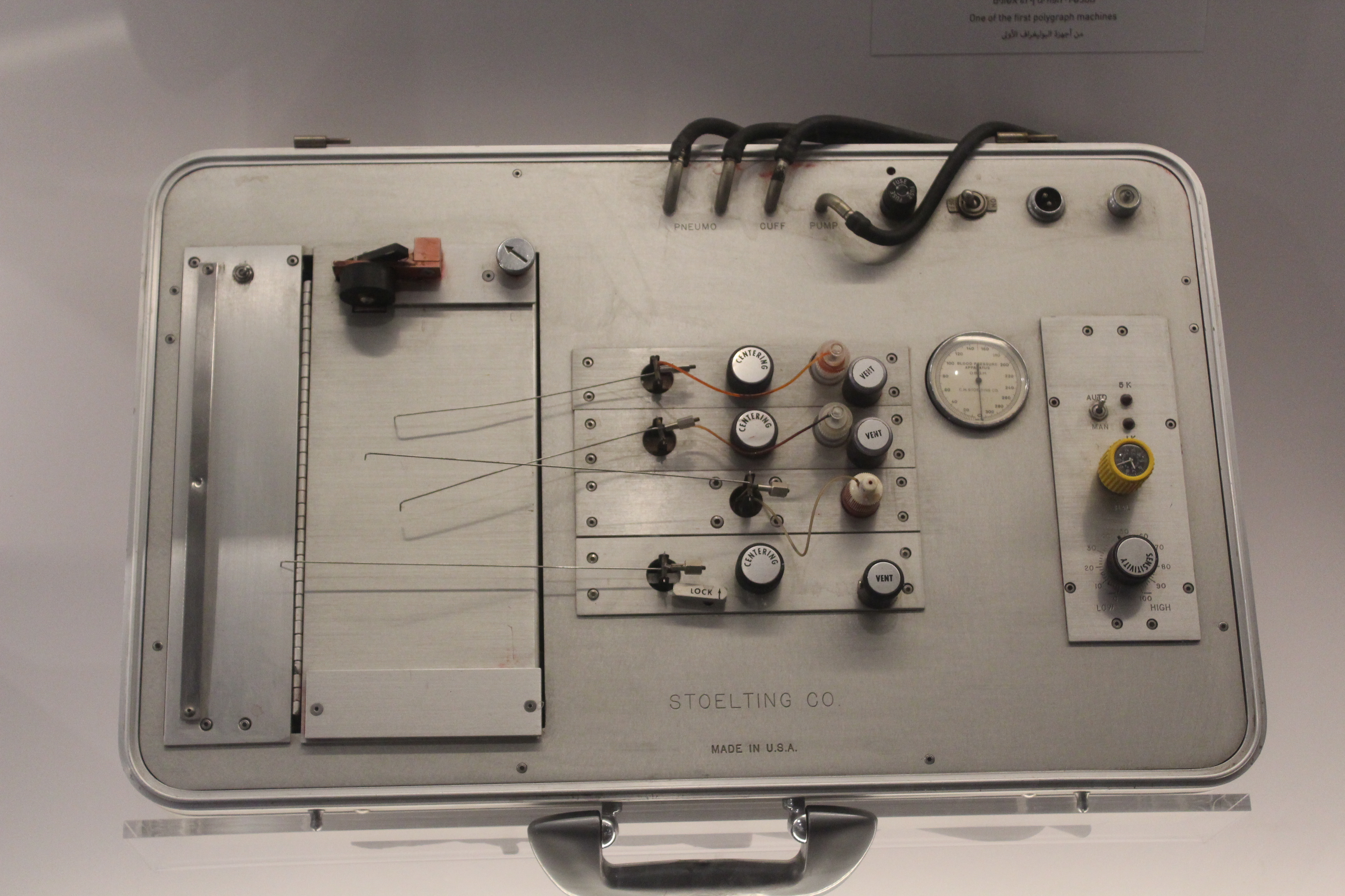 Exhibits at the Israeli Police Heritage Center in Bet Shemesh, Israel This image was taken as part of the Elef Millim project trip to the Israeli Police Heritage Center, in Beit Shemesh which was held on Friday, 24th February 2017. To view all images uploaded as part of the Elef Millim Project